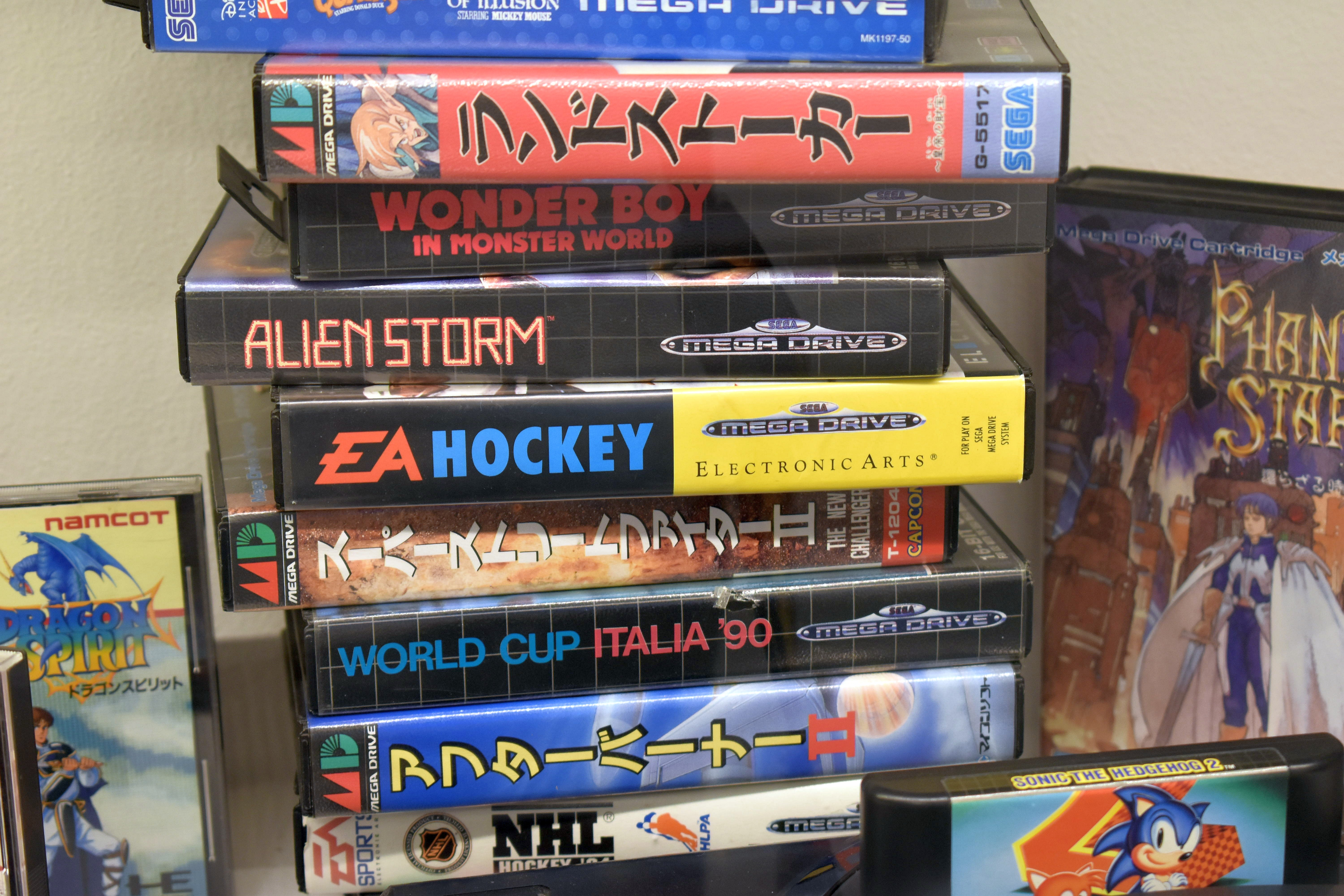 Videogame Museum of Stockholm, Sweden